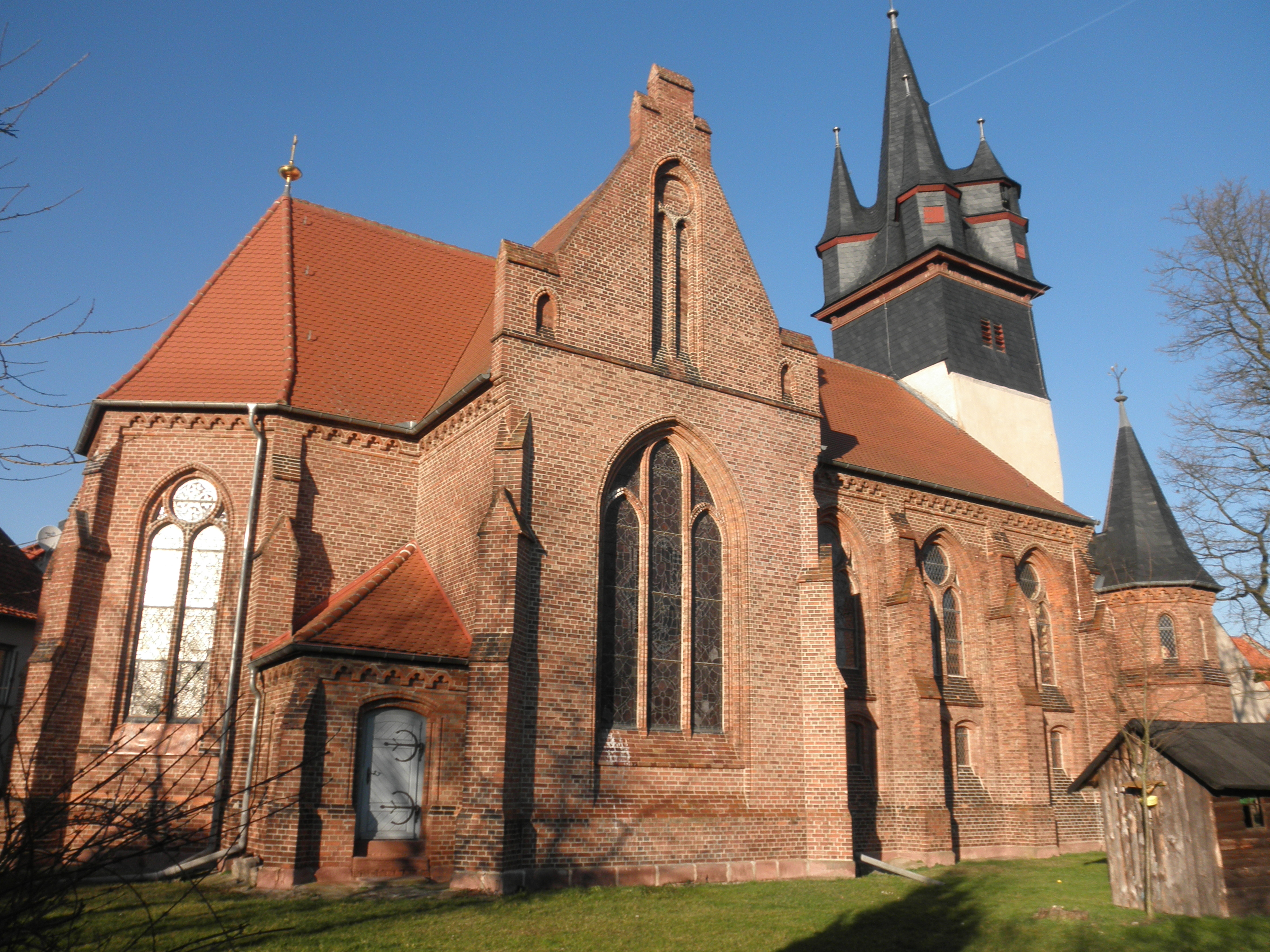 Church in Görsbach in Thuringia